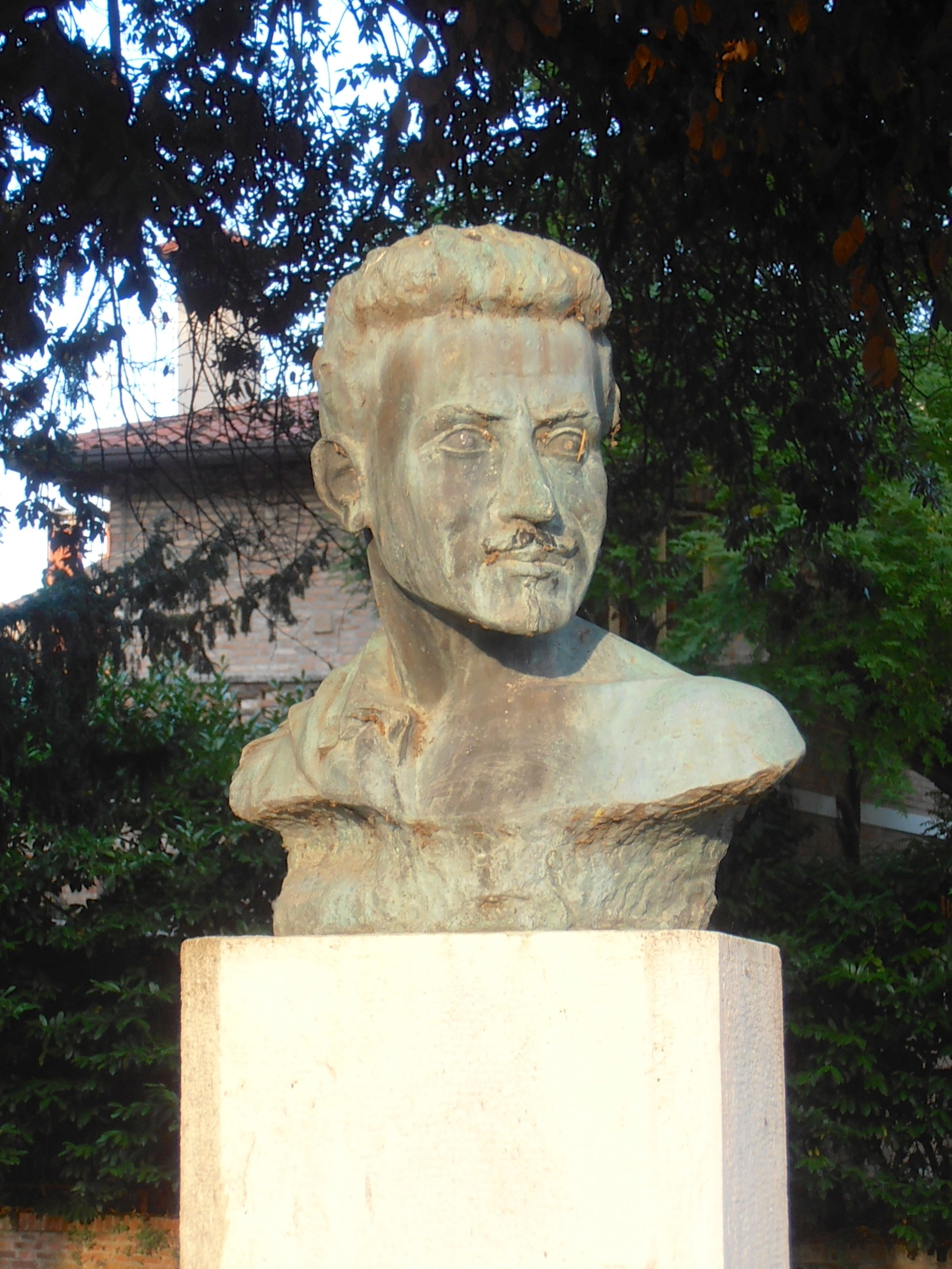 Italy - Portogruaro - Bust of Ippolito Nievo